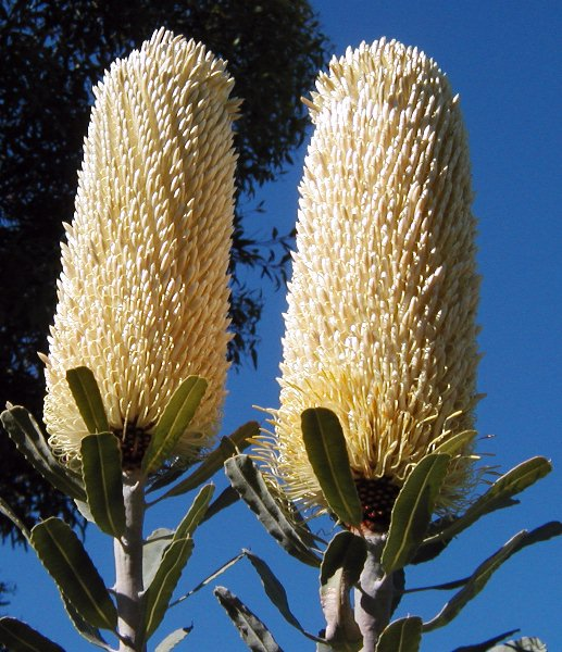 Banksia sceptrum inflorescences, near Jarrahdale Dec 2004 photo Cas Liber